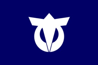 Flag of Ichikai Tochigi